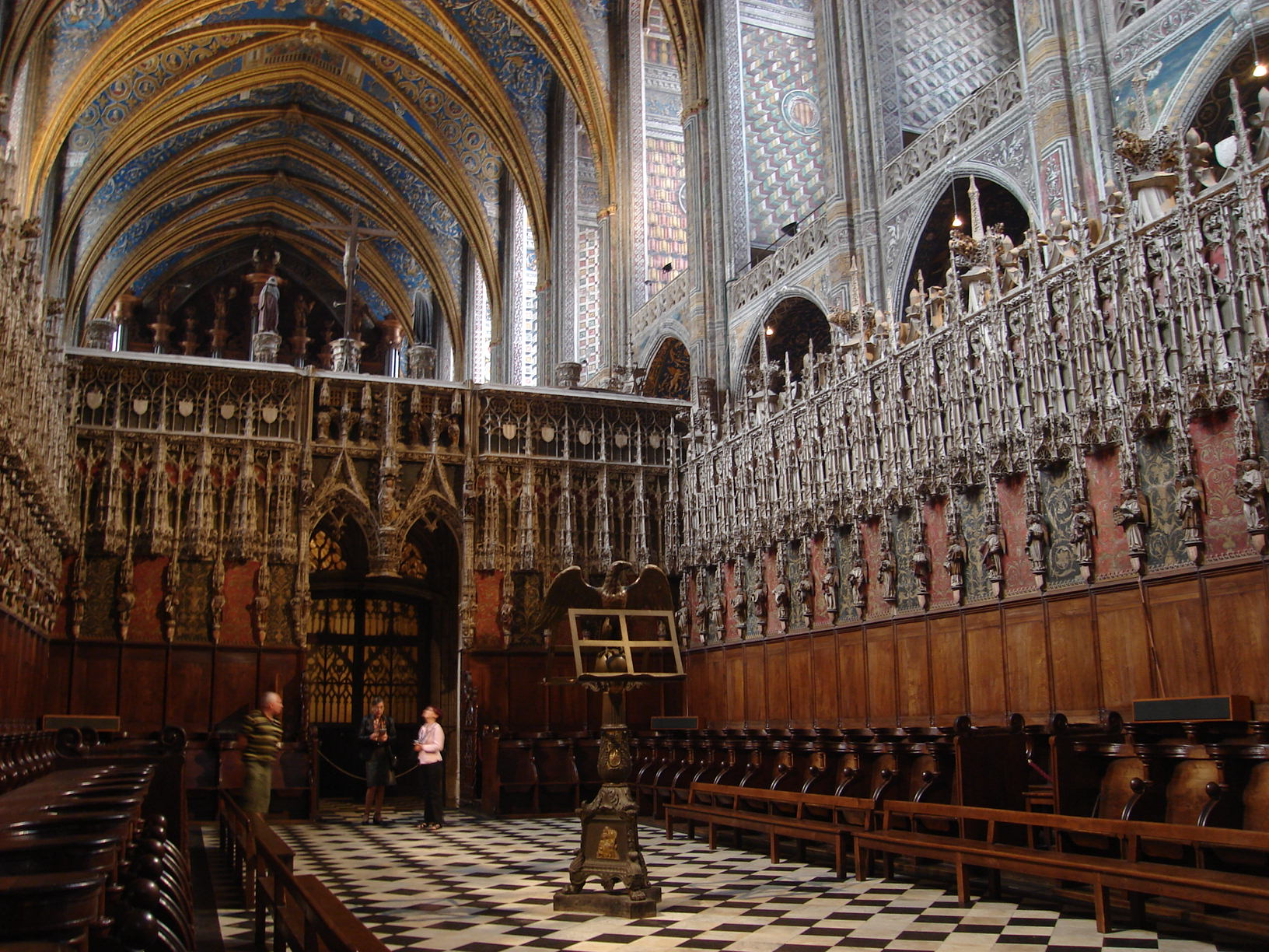 Choir of the Cathedral of Albi, France